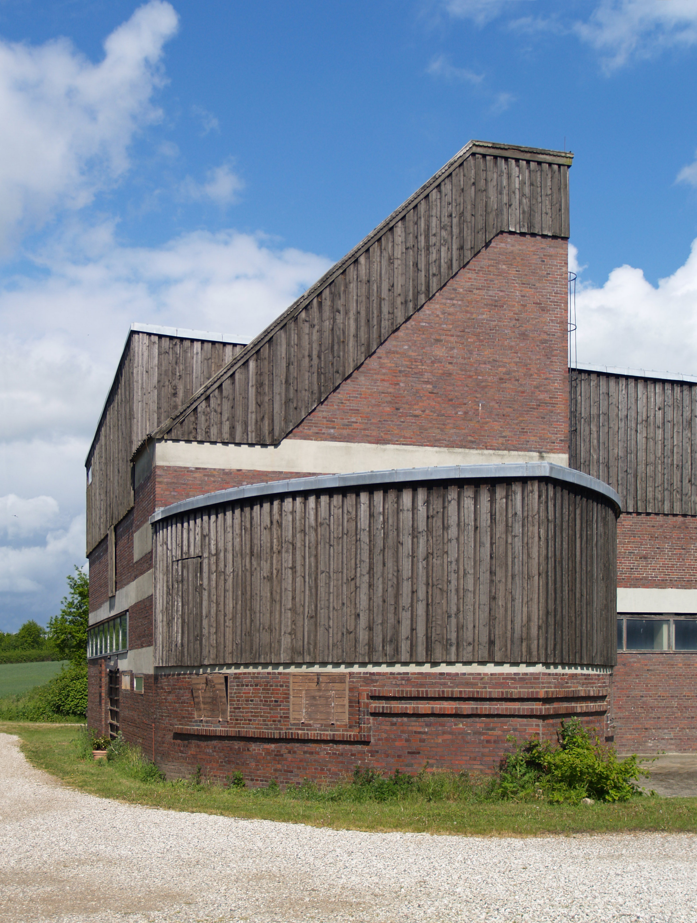 cowshed, Gut Garkau farm, Germany, 1923-1926. architect: Hugo Häring.